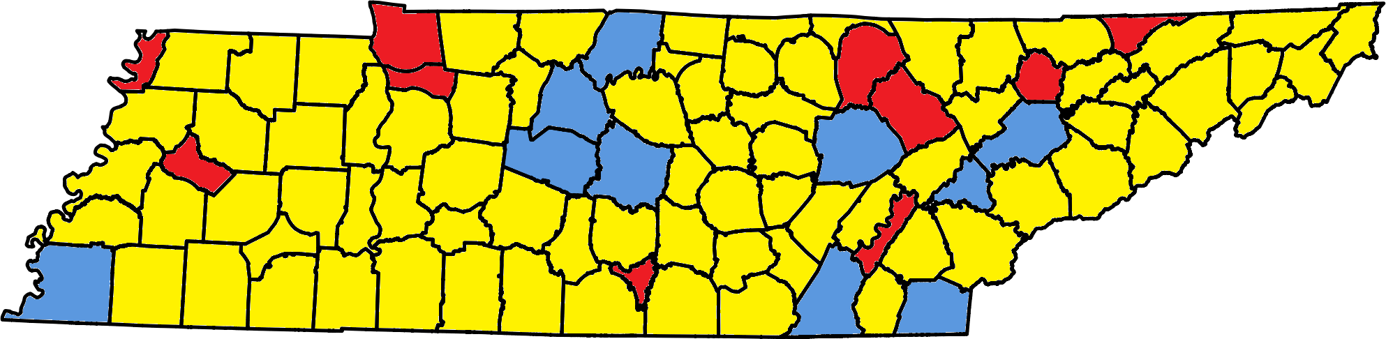 Map showing dry (red), wet (blue), and moist (yellow) counties in Tennessee